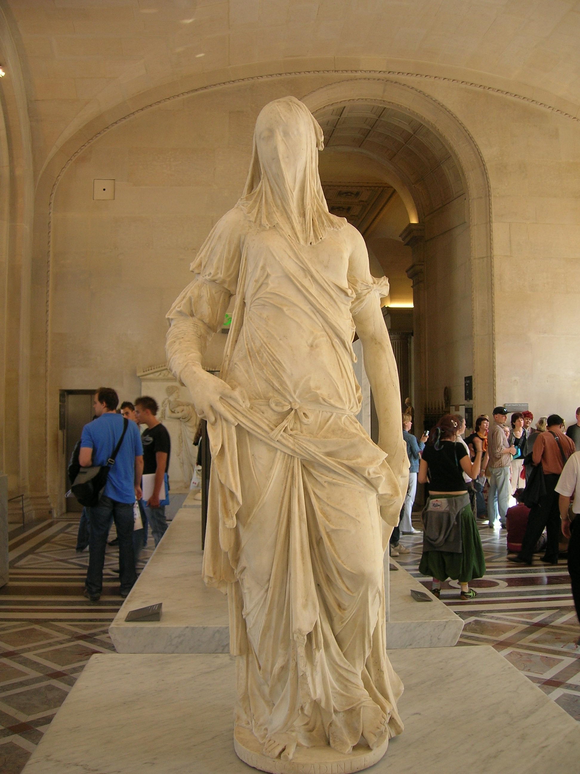 Sculpture at the Louvre by Venetian Rococo sculptor Antonio Corradini